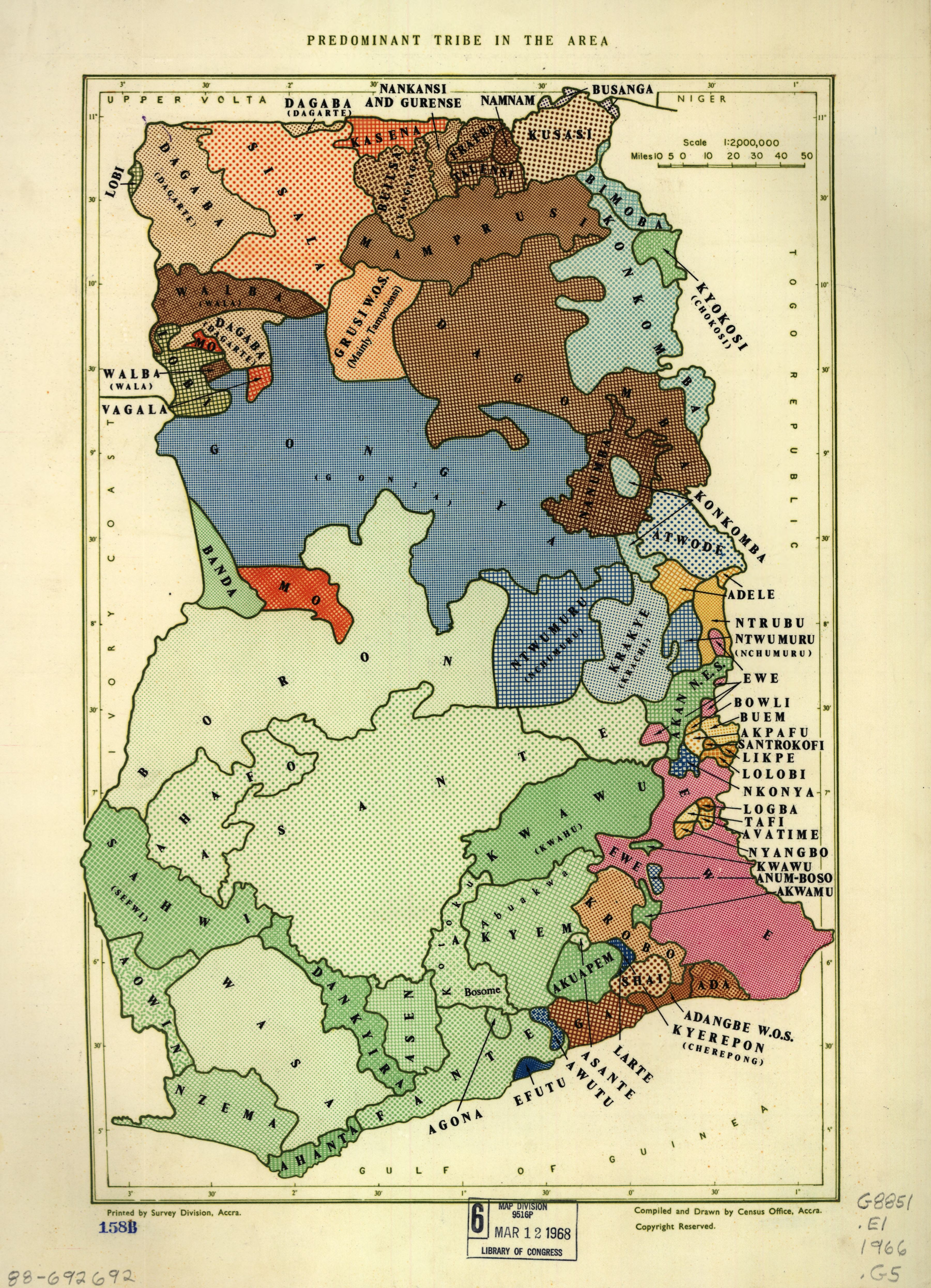 Available also through the Library of Congress Web site as a raster image.